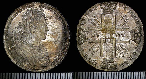 Rubl 1727